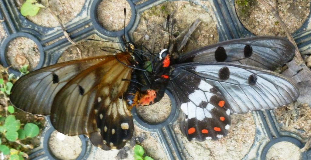 These two butterflies were mating for a long time (at least half an hour) late this afternoon in my back garden near Cooktown, Queensland